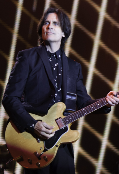 Paul McCartney, Saturday 19 April, Centenario Stadium, Montevideo, Uruguay. Out There tour, including performances at the Movistar Arena in Santiago, Chile (Monday 21 and Tuesday 22), then in Peru, Ecuador and Costa Rica. Repertoire with several Beatles classics, some songs as Macca soloist, and songs from New his 2013 album produced by Mark Ronson, Paul Epworth and Giles Martin. This is the second visit of the former Beatle to Montevideo. His unforgettable debut at Centennial was in 2012, the On The Run tour, included songs from her jazzy album Kisses on the Bottom standards: Paul McCartney, sábado 19 de abril, estadio Centenario de Montevideo, Uruguay. Gira Out There, que incluye presentaciones en el Movistar Arena de Santiago de Chile (el lunes 21 y martes 22), y luego en Perú, Ecuador y Costa Rica. Repertorio con varios clásicos de los Beatles, algunos temas como solista de Macca, y también canciones de New, su álbum de 2013 producido por Mark Ronson, Paul Epworth y Giles Martin. Se trata de la segunda visita del ex beatle a Montevideo. Su inolvidable debut en el Centenario fue en 2012, dentro de la gira On The Run, que incluía canciones de su álbum de standards jazzeros Kisses on the Bottom: The Band: Paul McCartney: Lead Vocals, Bass, Acoustic Guitar, Piano, Electric Guitar, Ukulele. Rusty Anderson: Backing Vocals, Electric Guitar, Acoustic Guitar. Brian Ray:(Backing Vocals, Bass, Electric Guitar, Acoustic Guitar, Tambourine. Paul Wickens: Backing Vocals, Keyboards, Electric Guitar, Percussion, Harmonica. Abe Laboriel, Jr.: Backing Vocals, Drums, Bass, Percussion. Camera: Canon EOS 5D Mark II 8 ISO: 640